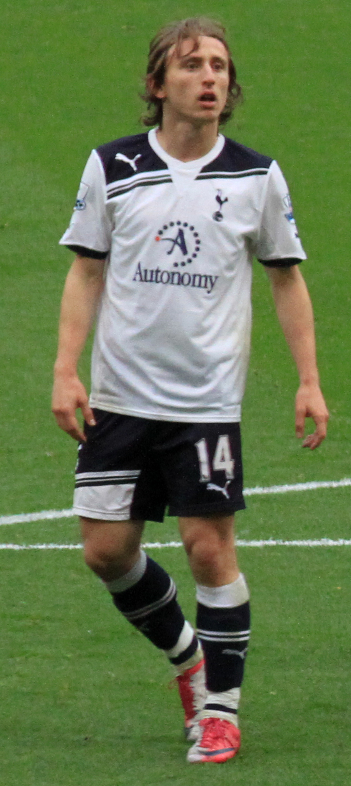 Laurent Koscielny (6) of Arsenal F.C. clashes with Heurelho Gomes of Tottenham Hotspur F.C. in November 2010.